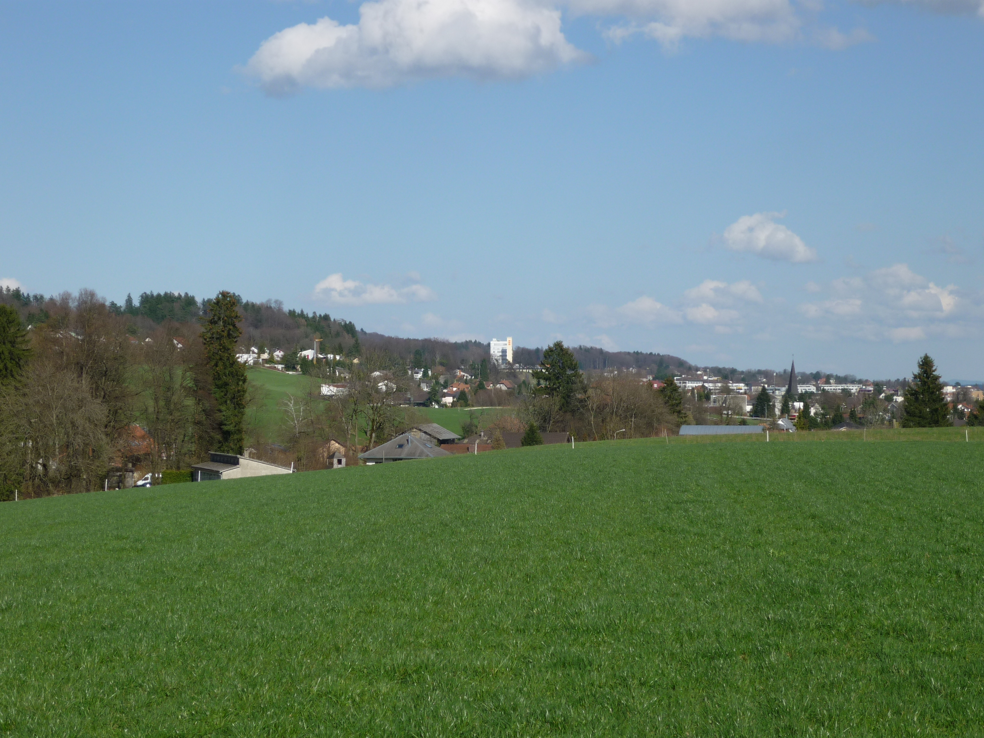 Partial view of the municipalities of Bellach (foreground) and Langendorf in the Canton of Solothurn, Switzerland, seen from neer the Bellacherweiher pond.